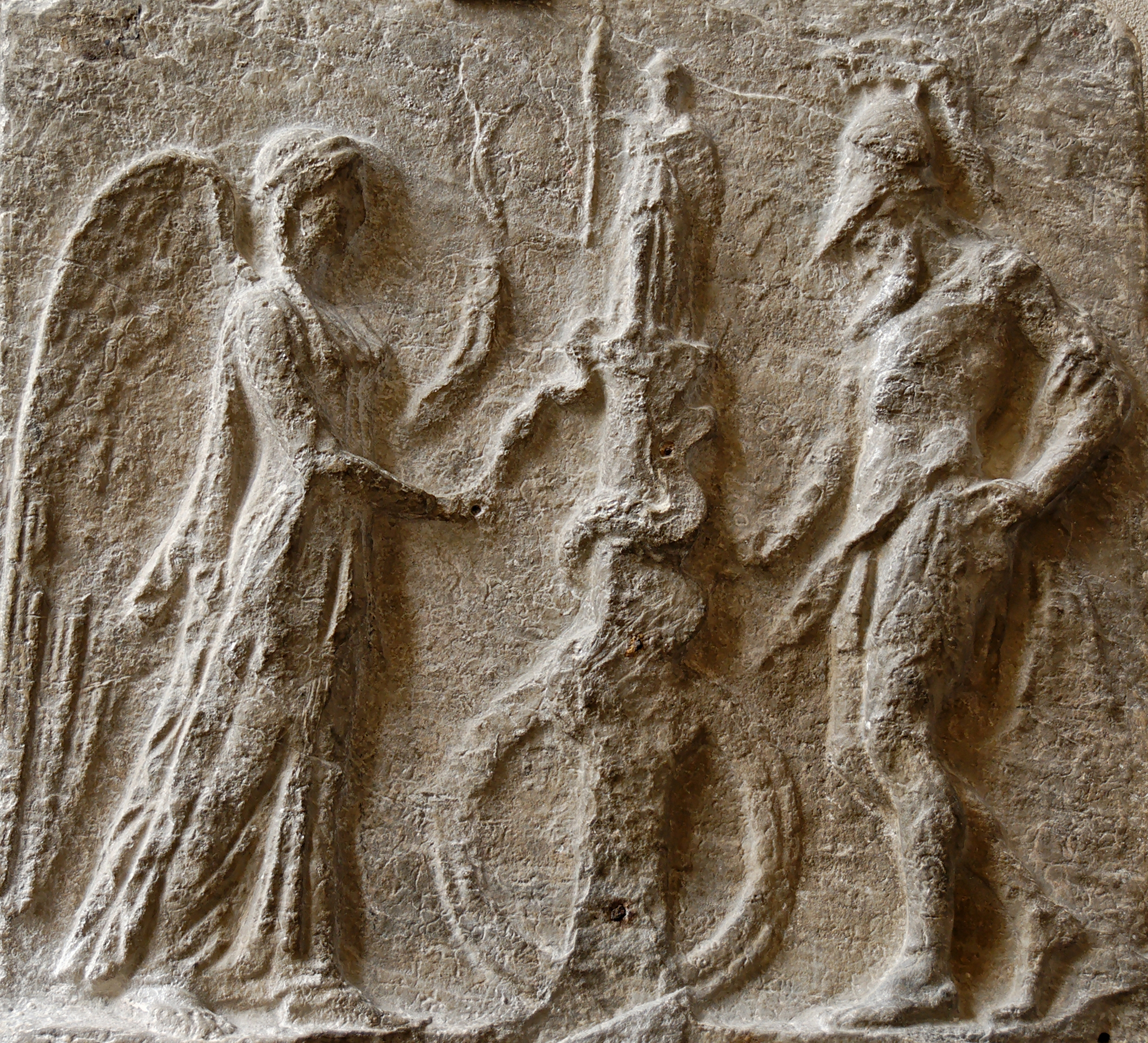 Nike (Victory) offering an egg to a snake entwined around a column topped with the Palladion; a warrior wearing helmet and armour has laid down his shield at the feet of the trophy and stands in a contemplative posture. Marble, Roman copy of the late 1st century AD after a neo-Attic original of the Hellenistic era.